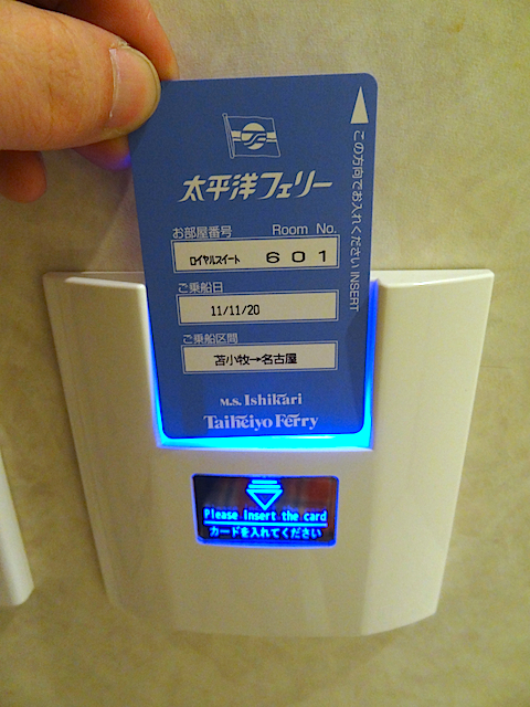 Card key to a compartment of Taiheiyo Ferry Ishikari